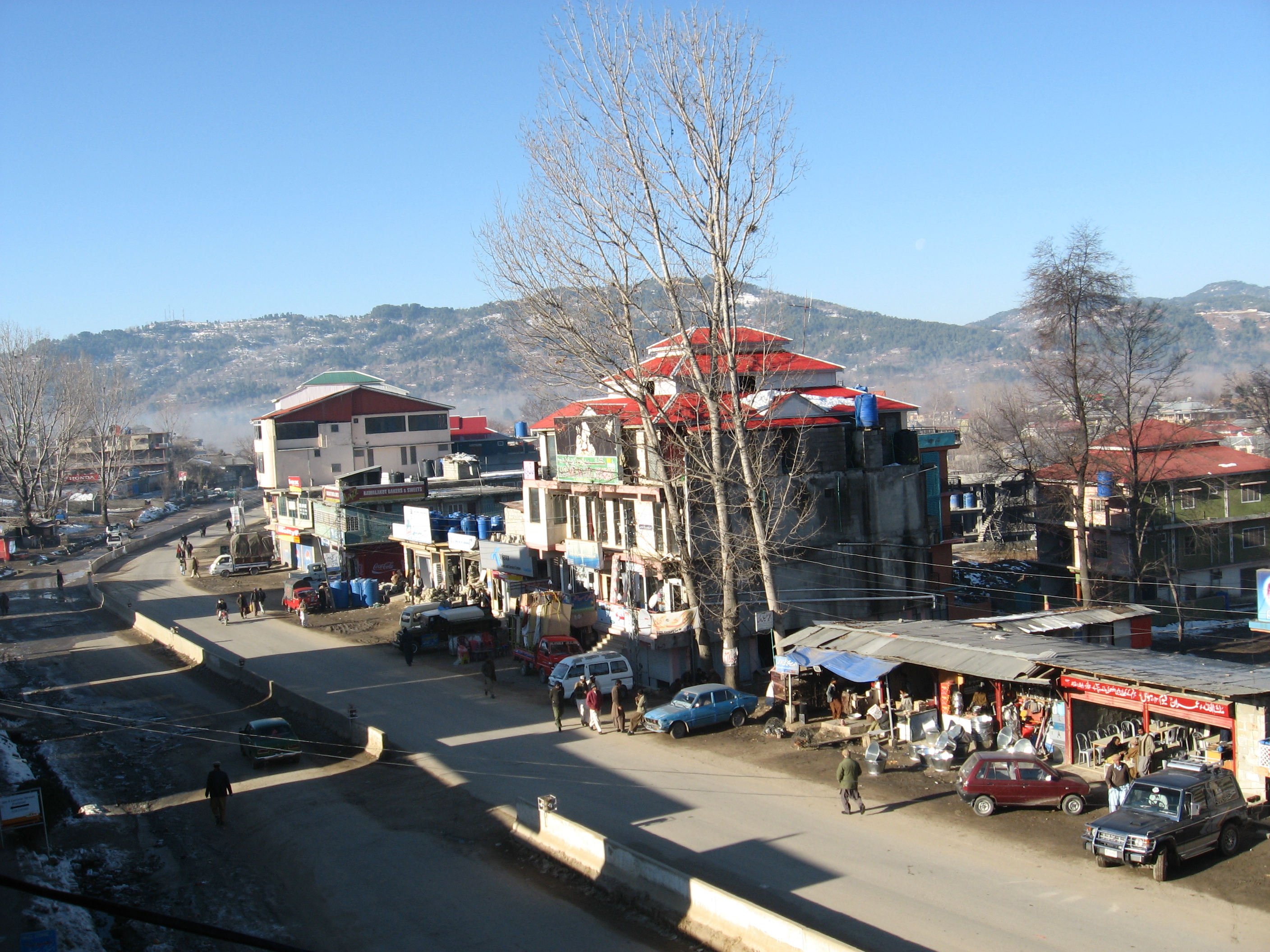 A view of Mong Road, Rawalakot, Azad Kashmir, Pakistan